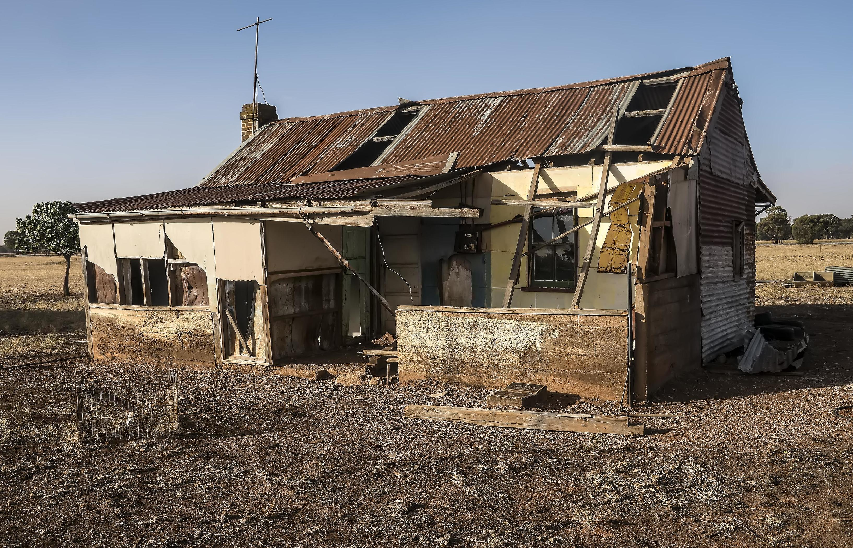 A home that needs a few repairs